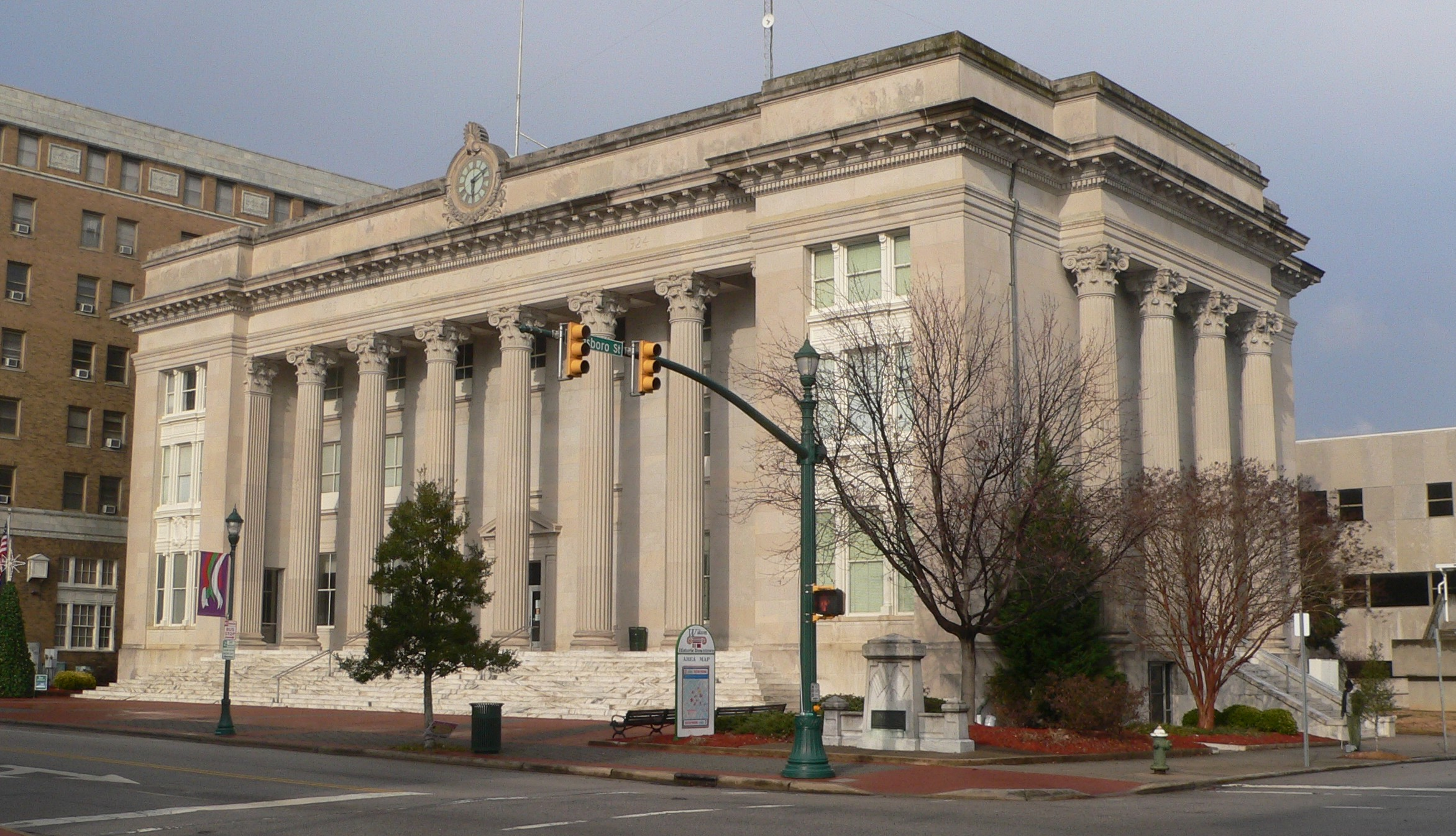 Wilson County courthouse, located at northern corner of Nash and Goldsboro Streets in Wilson, North Carolina; seen from the south-southwest.